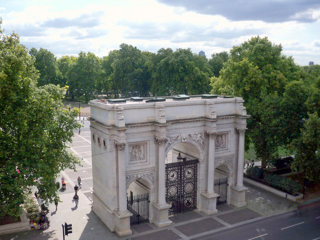 Marble Arch View from the Cumberland hotel of Marble Arch and Hyde park beyond.